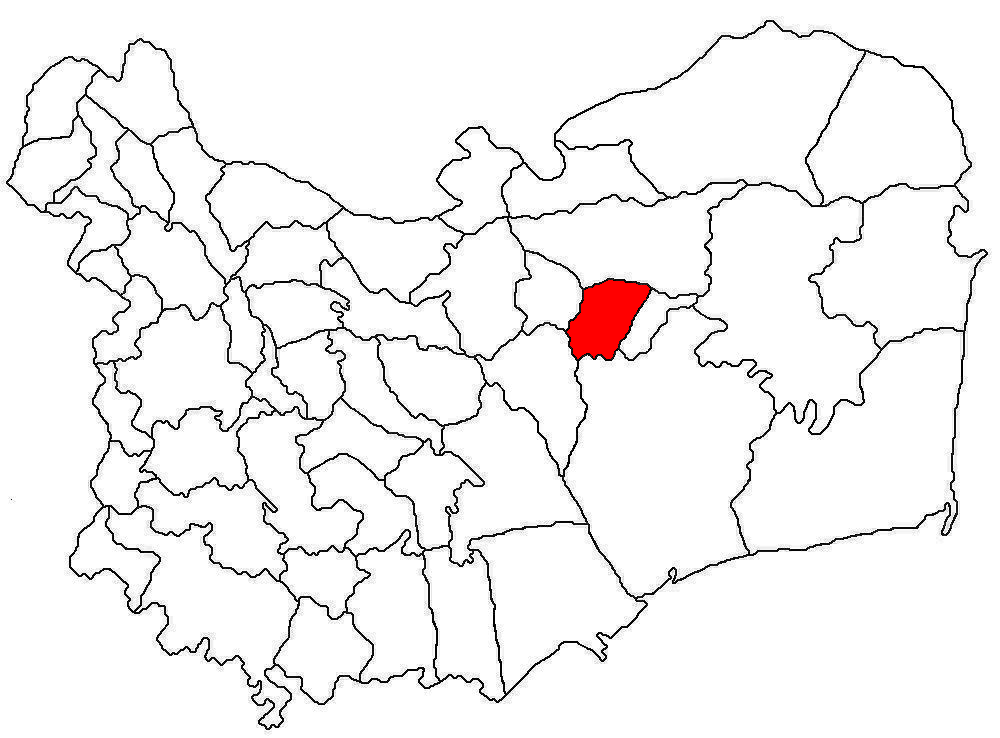 Locator map of the commune Bestepe in Tulcea County